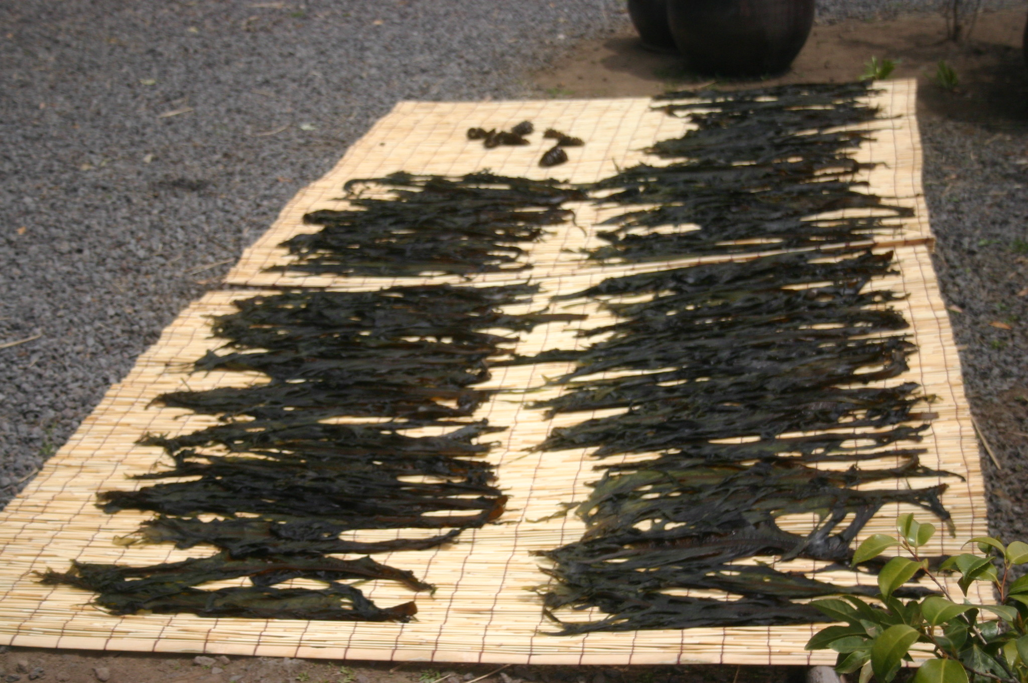 Miyeok (seaweed) being dried at the Jeju Folk Village in South Korea